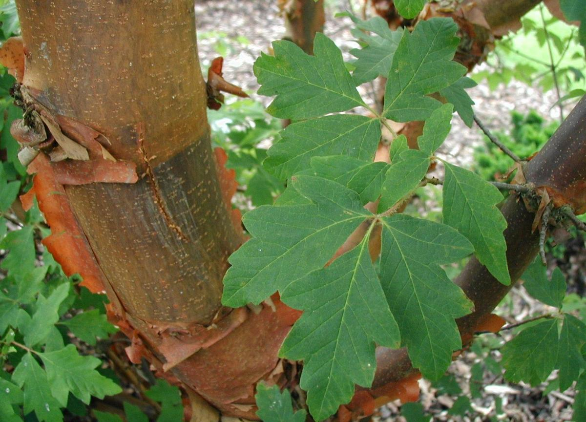 Acer griseum: Bark and leaves.